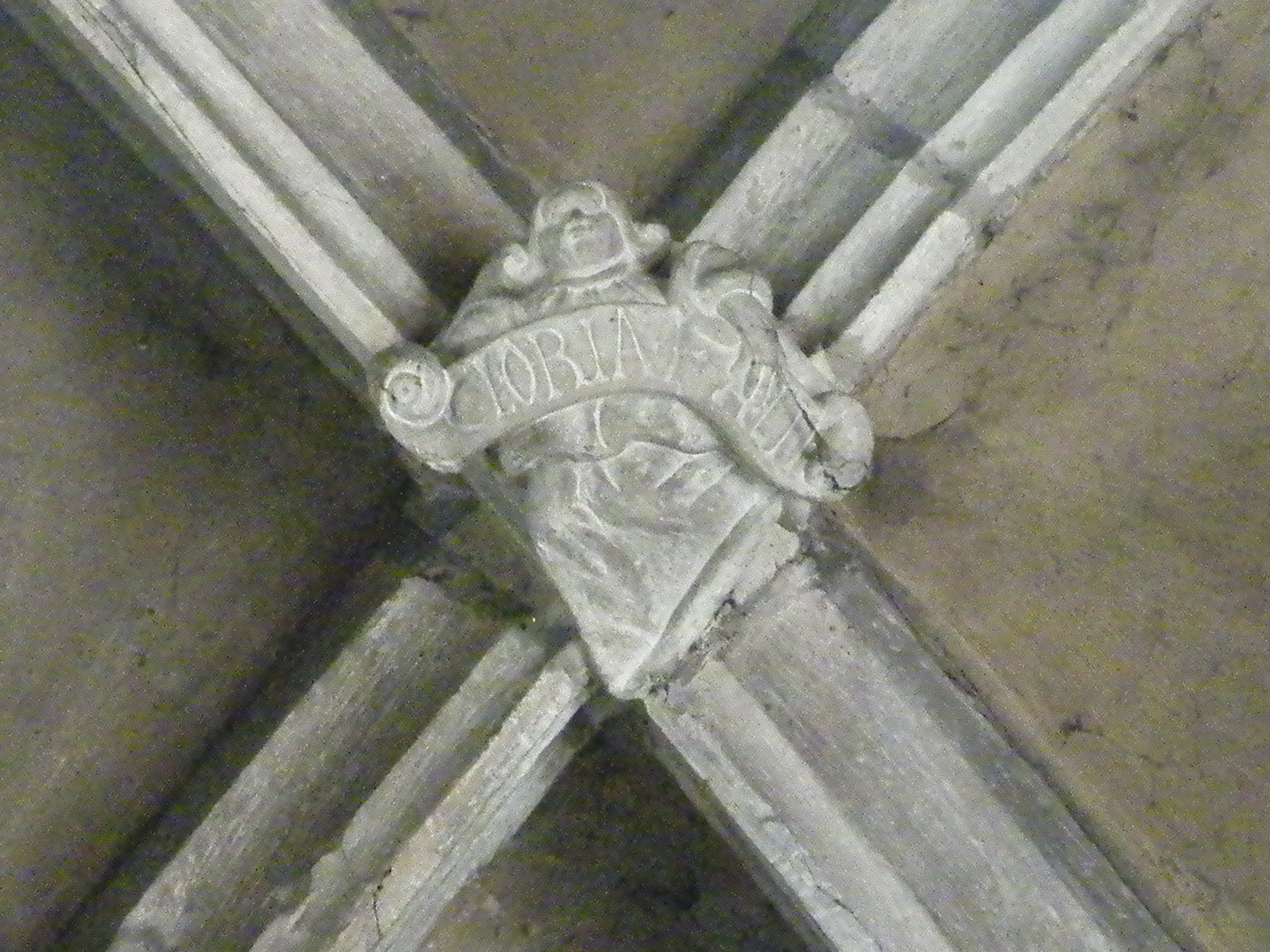 Decorated keystone on a quadripartite cross-ribbed vault, church Saint-Mansuy de Fontenoy-le-Château, Vosges, France.